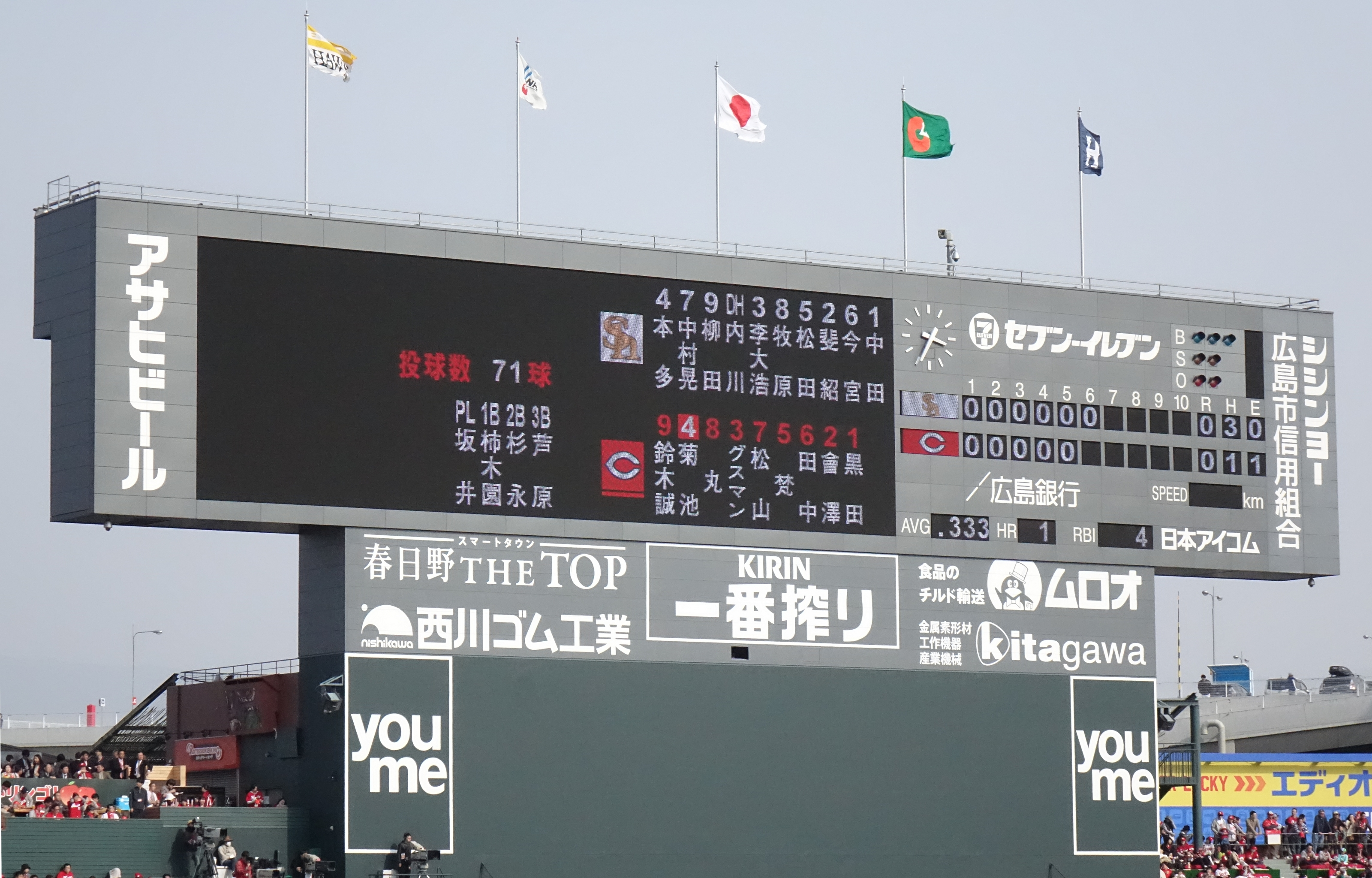 The scoreboard which was repaired so that the number of the throws of the pitcher was displayed from 2015